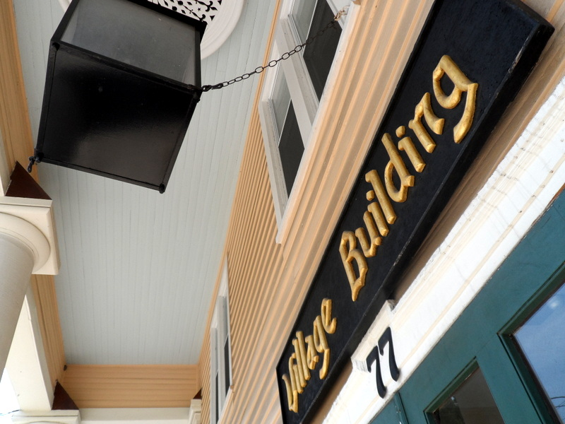 Warwick Village Historic District This photo shows the village building in historic Warwick.